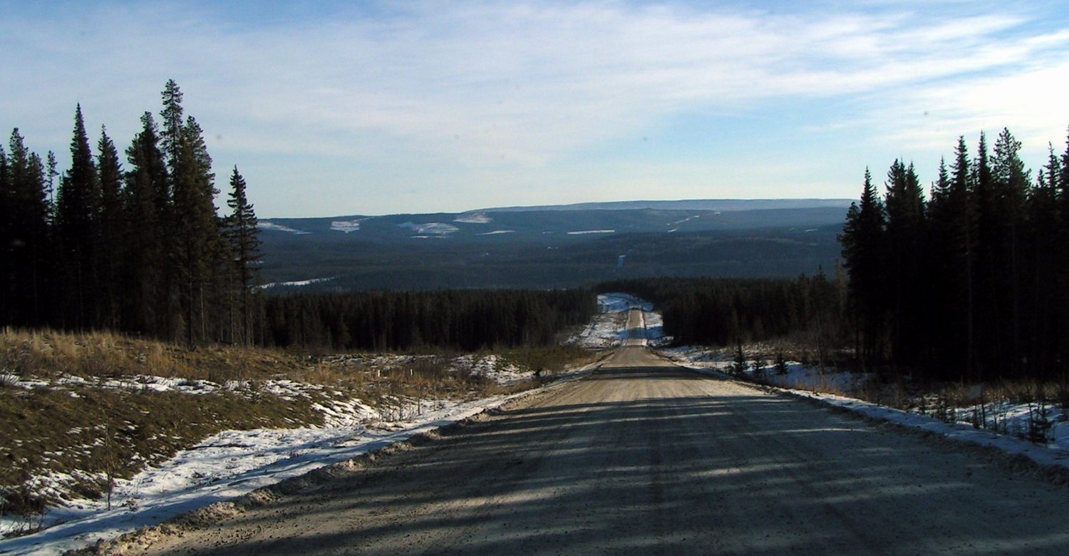 Unimproved section of Alberta Highway 734 (Bighorn Highway), through the Rocky Mountains foothills, north of Nordegg, Alberta, Canada